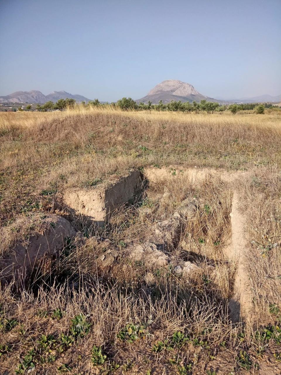 Examilia, Corinthia, Greece: Archaeological site of Gonia.